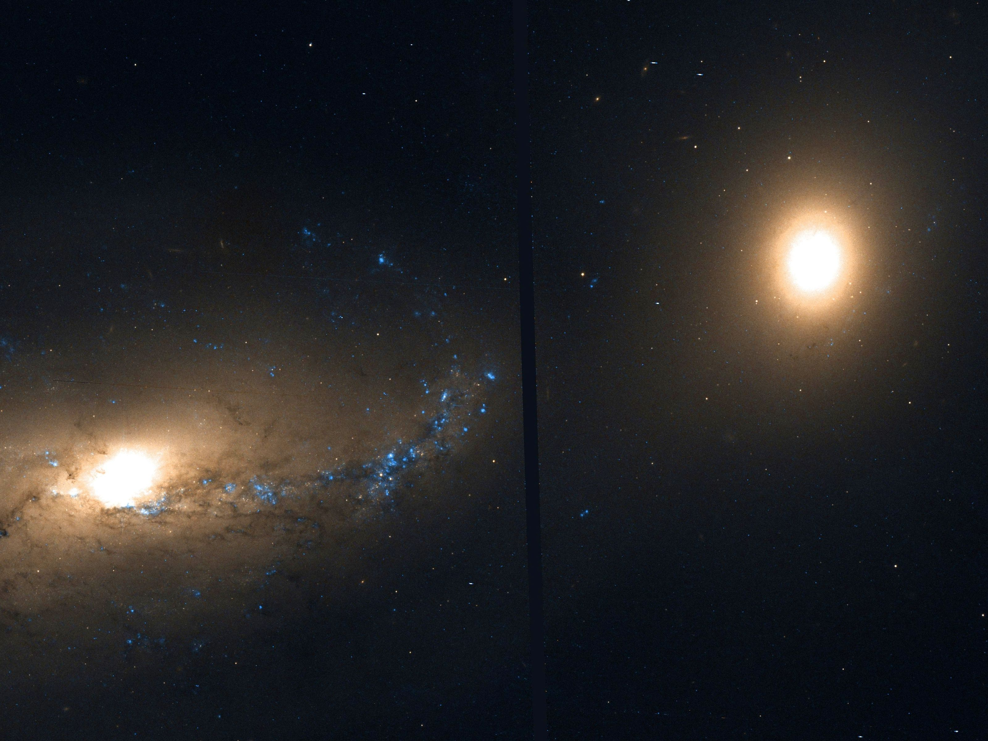 NGC 3227 (left) and NGC 3226 (right) galaxies by Hubble space telescope